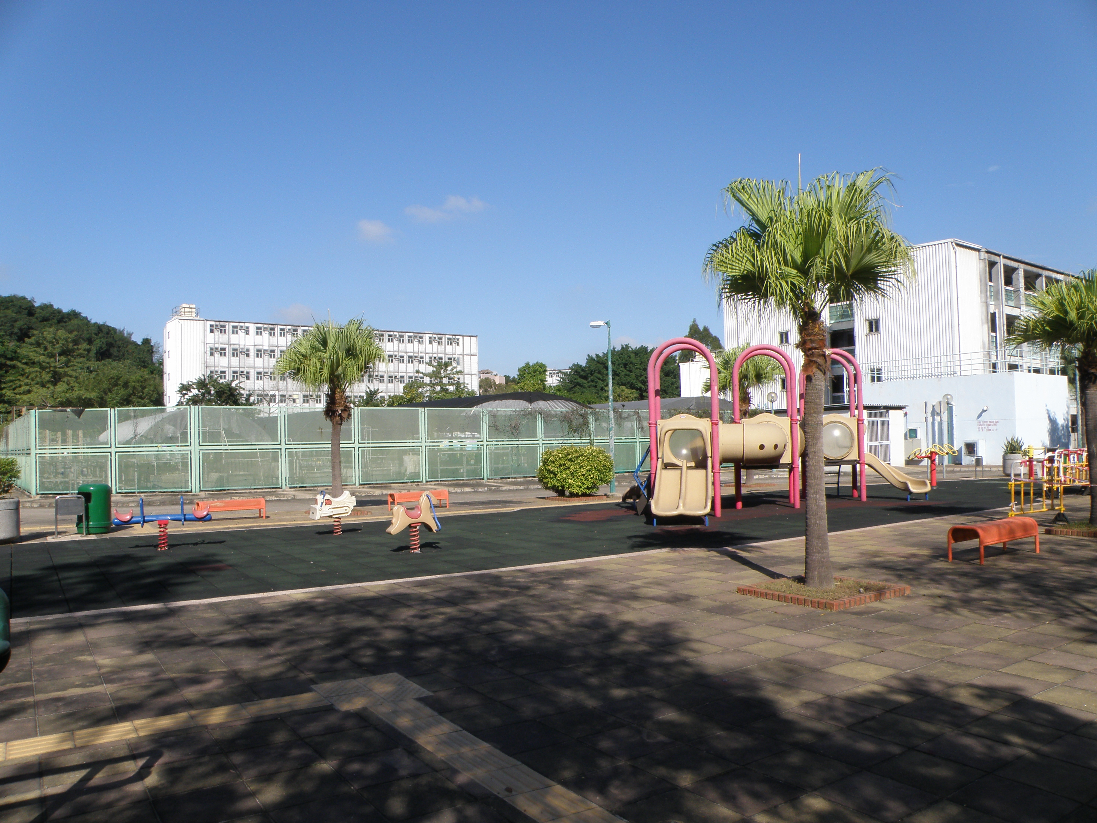 Long Bin Interim Housing in Yuen Long, Hong Kong.